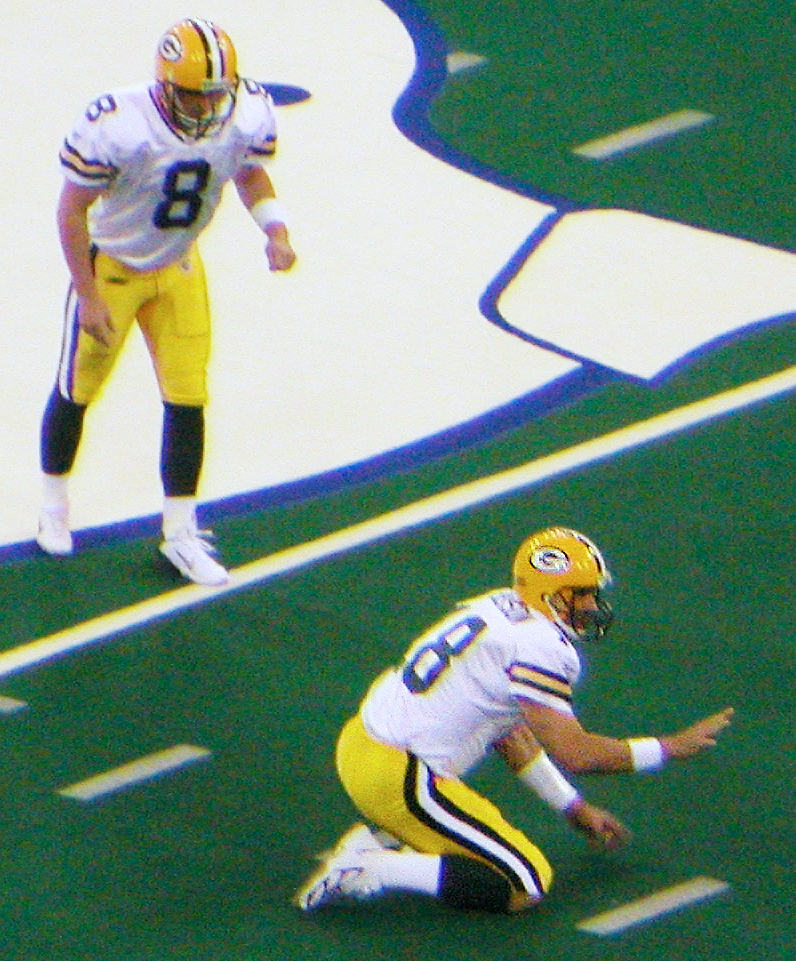 Doug Pederson ready to hold a kick for Ryan Longwell